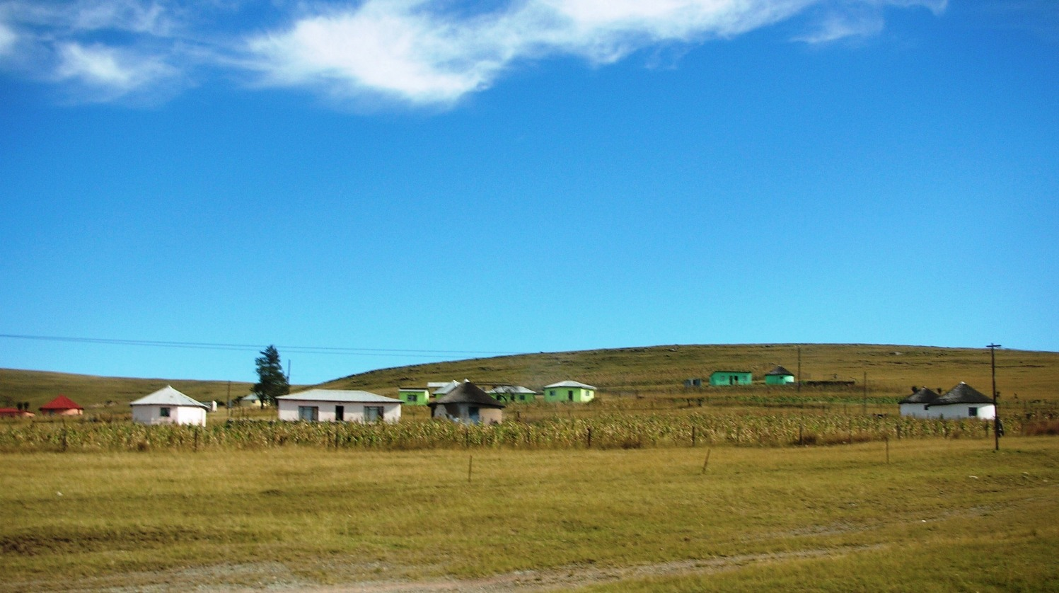 Landscape east of the Great Kei River